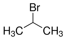 Structure of 2-bromopropane